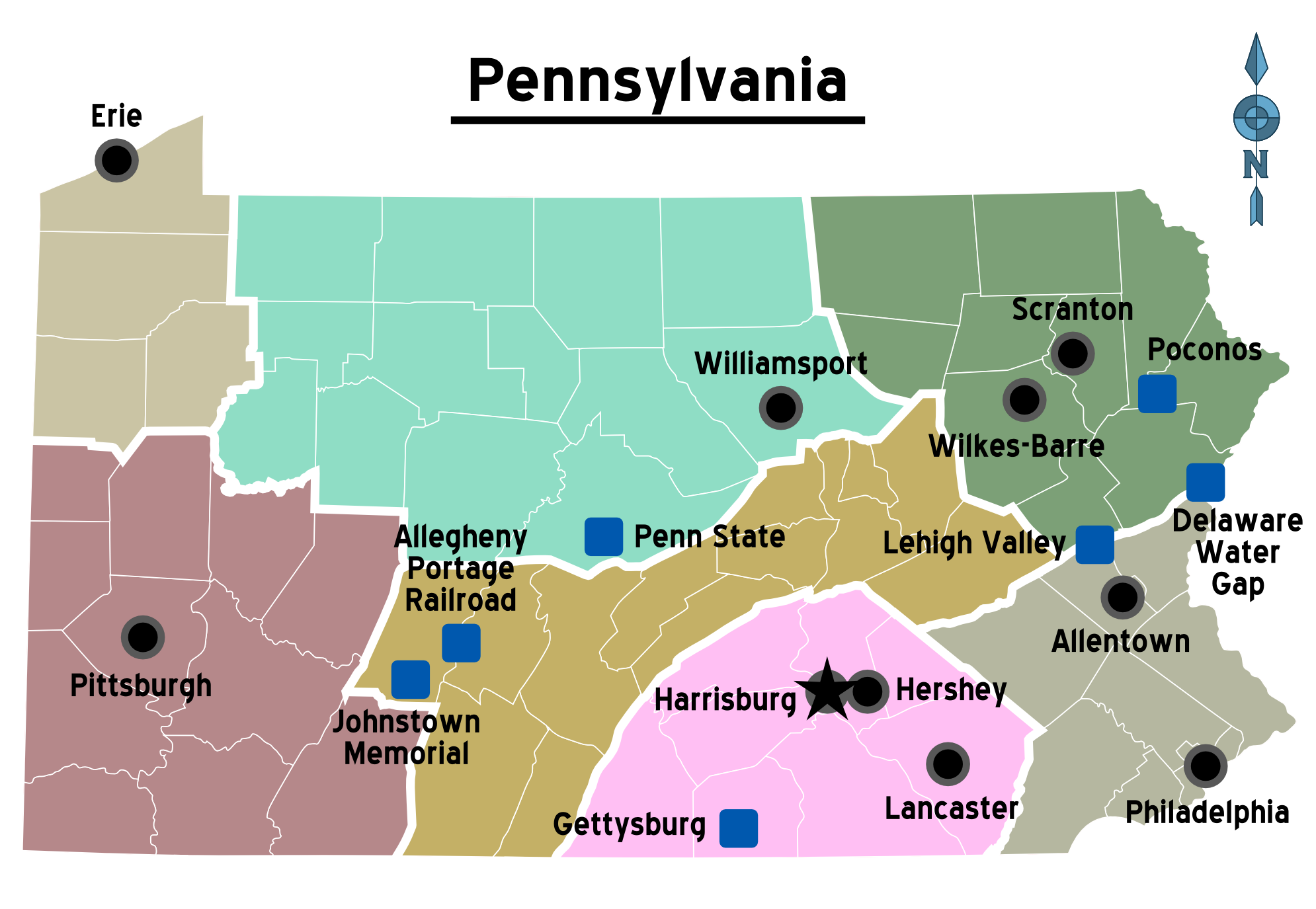 Pennsylvania regions map for use on Wikivoyage, English version